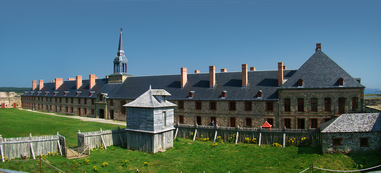 Fortress of Louisbourg, Cape Breton Island, Nova Scotia, Canada. Main building including the Governor's Apartments and the King's Bastion Barracks.